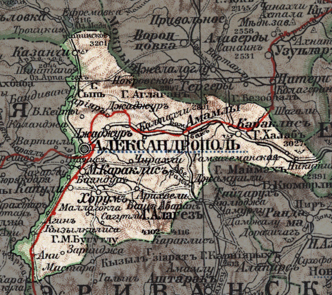 A highlighted map from 1903 of the Alexandrapol uyezd within the Erivan Governorate.